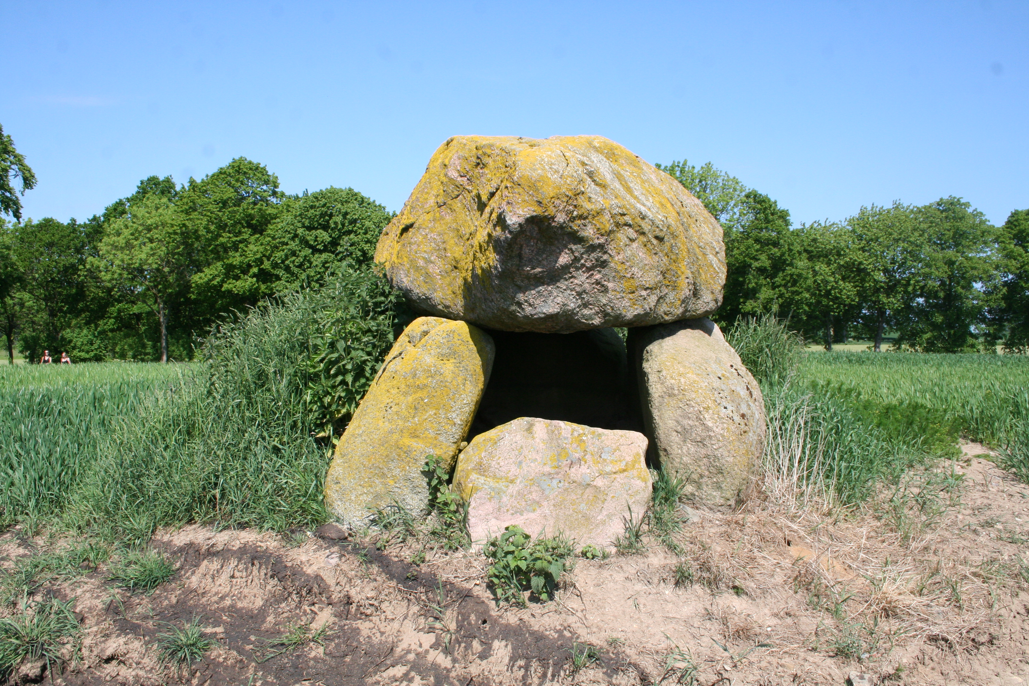 Großsteingrab Birkenmoor 14